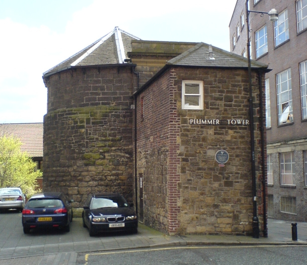 Plummer Tower in Newcastle upon Tyne, April 2007.